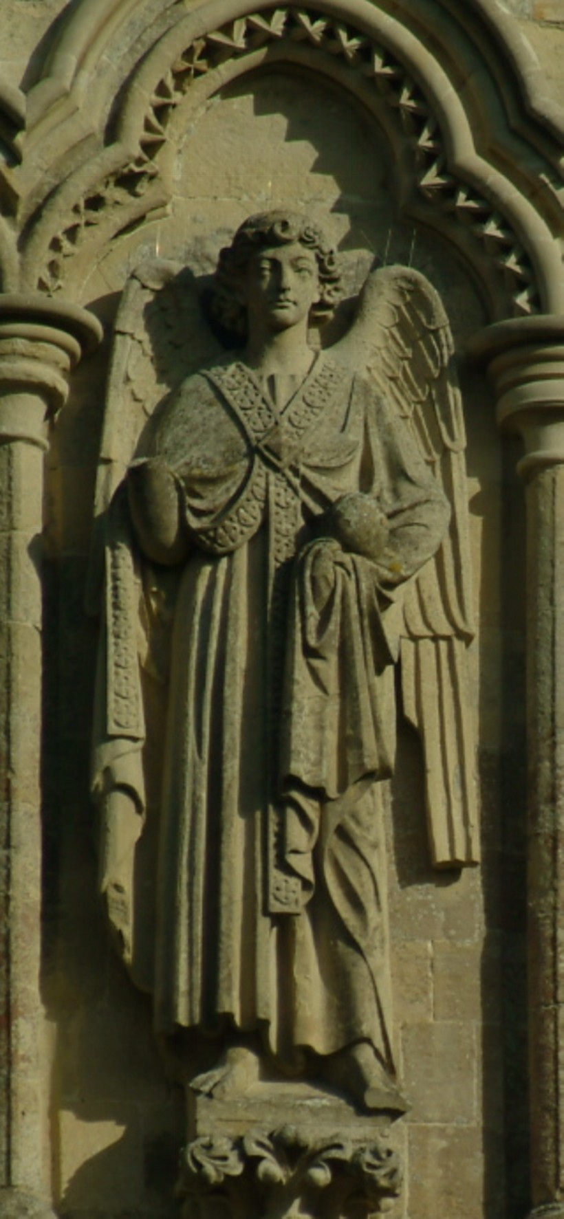 Statue of an archangel in niche 37 on the Great West Front of Salisbury Cathedral